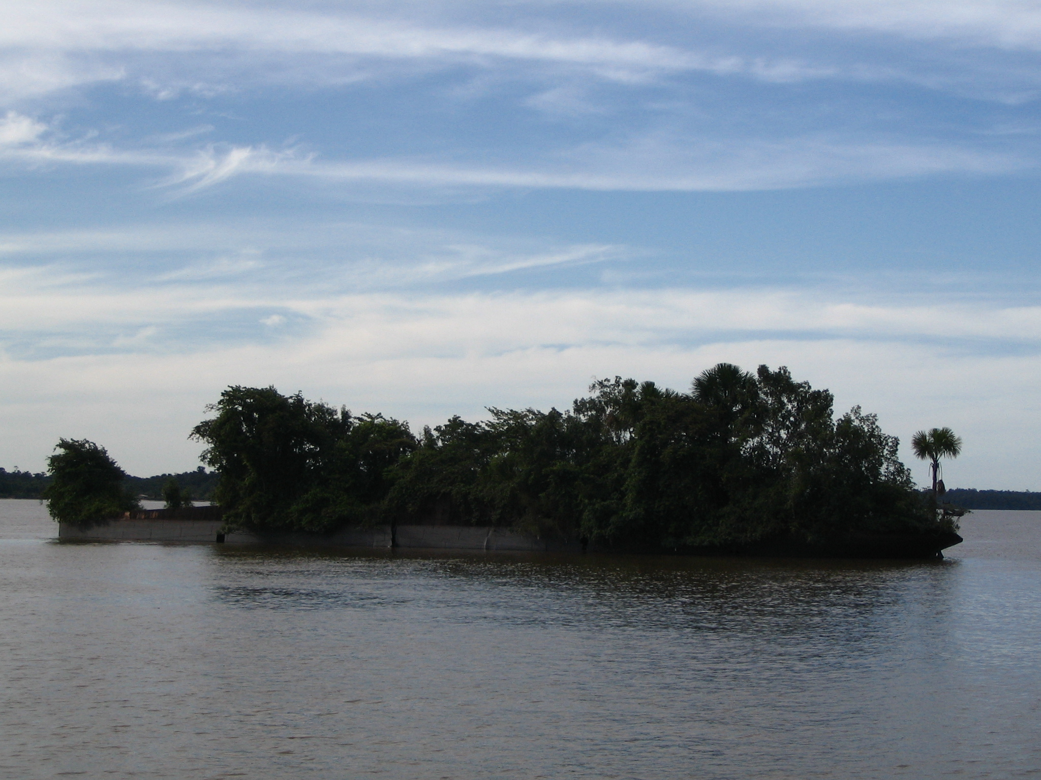 A sunken boat, overgrown with plants and trees, in the middle of the Maroni River, which forms the border between French Guiana and Suriname. The boat is called the Edith Cavell; it was a tradeship that sank here in 1925. Photo taken on 25 June 2005.